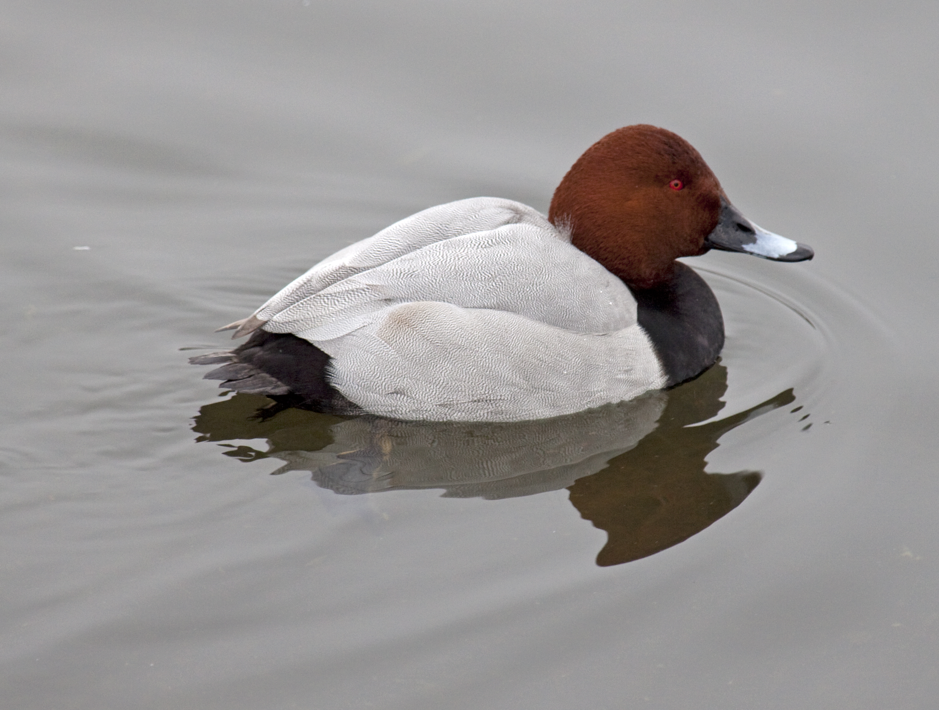 Pochard Aythya ferina, Sandwell, West Bromwich, England